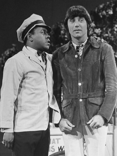 Photo of Flip Wilson as "Herbie" (his "bad" ice cream man character) and guest star Joe Namath from the television program The Flip Wilson Show.